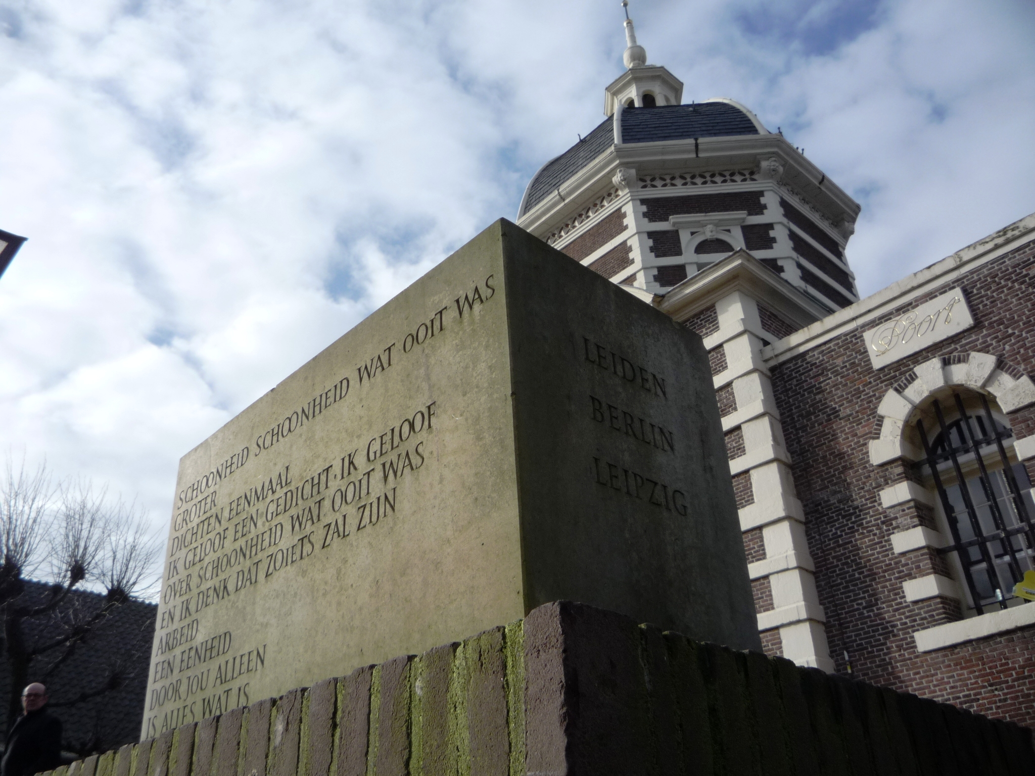 Marinus (Rinus) van der Lubbe (13 January 1909 – 10 January 1934) was a Dutch council communist convicted of, and controversially executed for, setting fire to the German Reichstag building on 27 February 1933, an event known as the Reichstag fire.